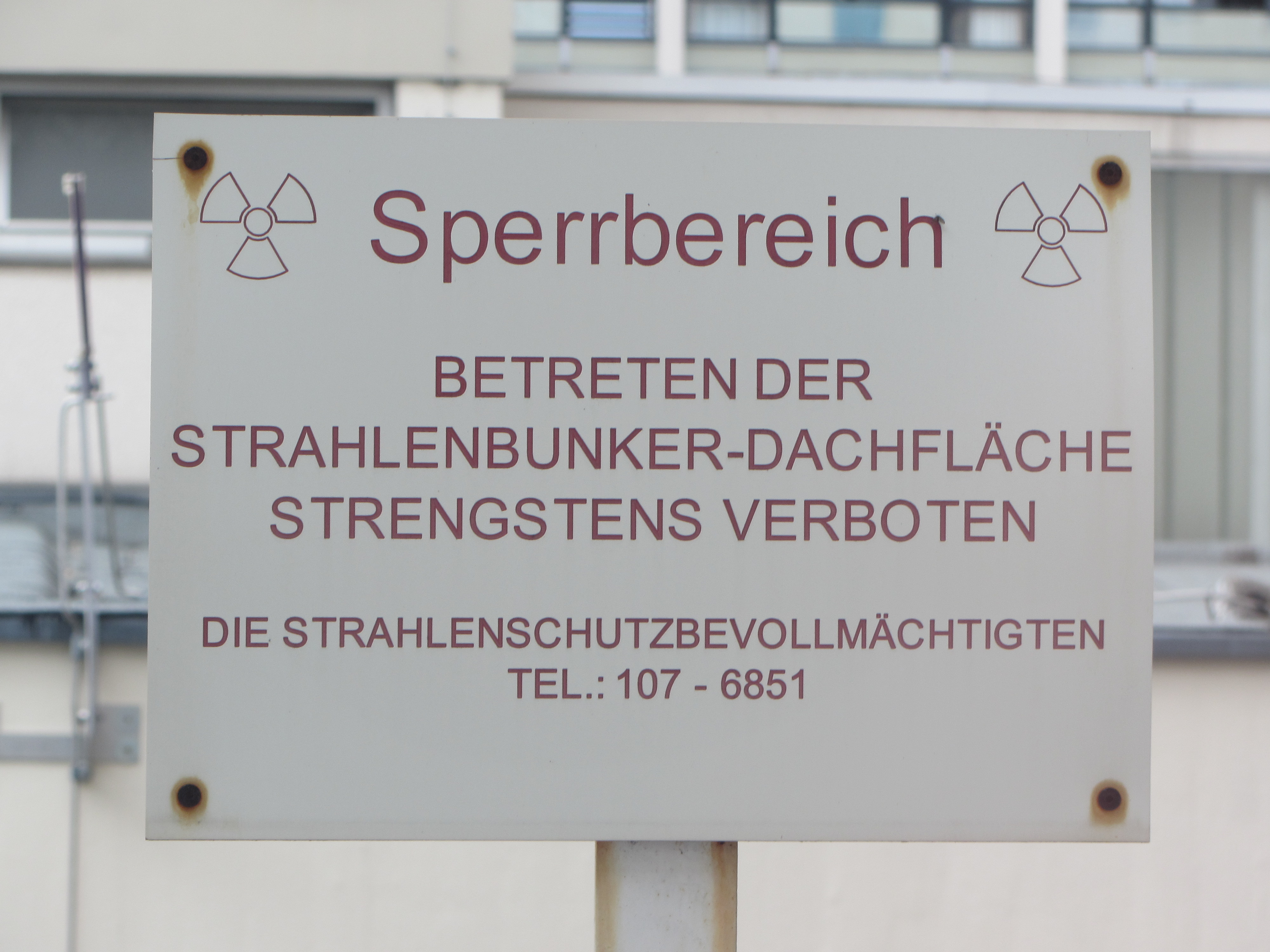 Warning in a hospital: Do not enter this area!